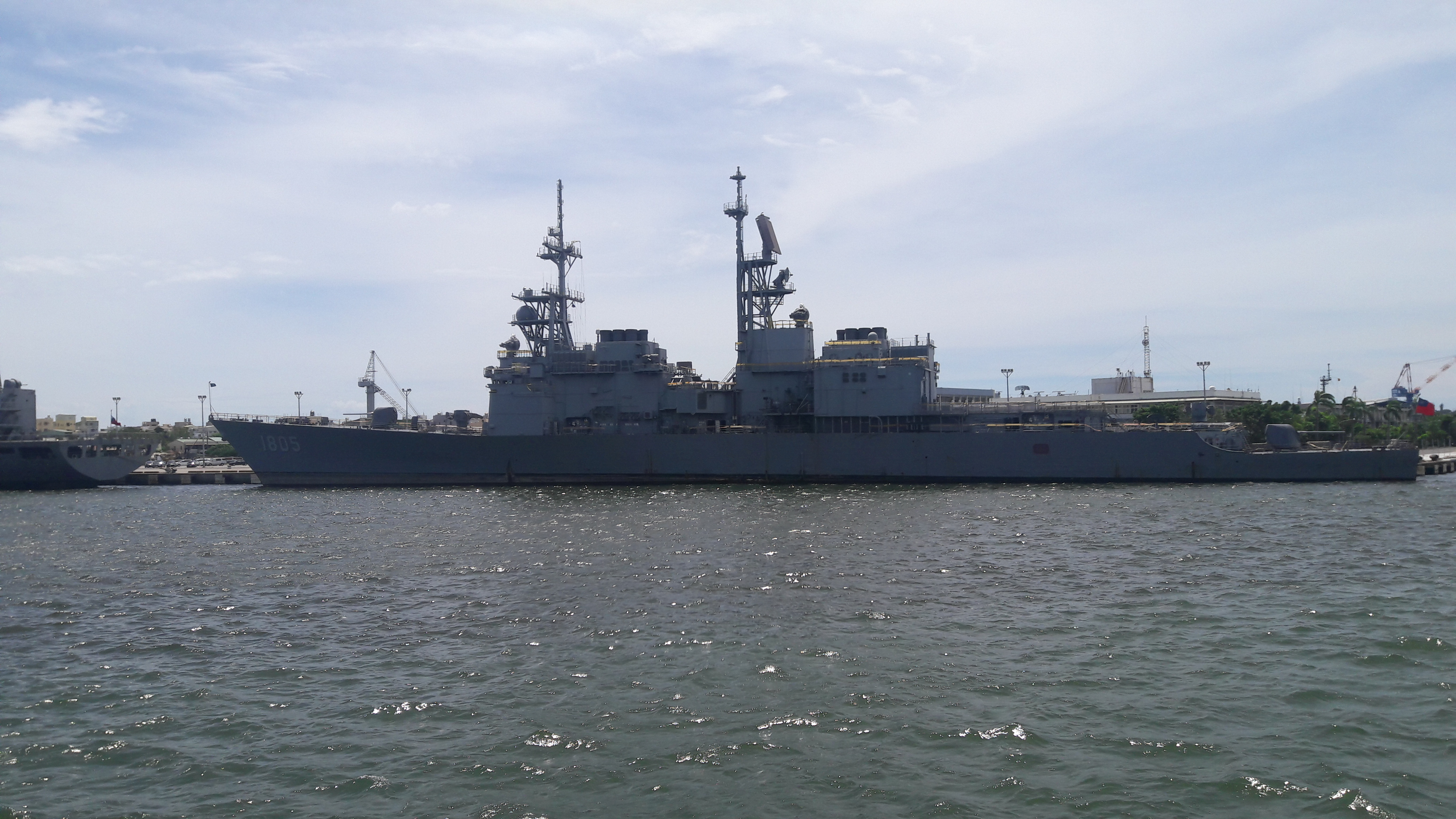 ROCS Ma Kung (DDG-1805), formerly USS Chandler (DDG-996) of the United States Navy, is a Kee-Lung class (Kidd class) guided missile destroyer in service with the Republic of China (Taiwan) Navy. This picture was taken in Kaohsiung Harbor, July 2017.